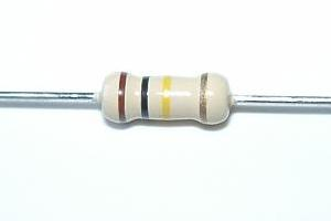 Color coded carbon resistor, 100 kΩ, 5%